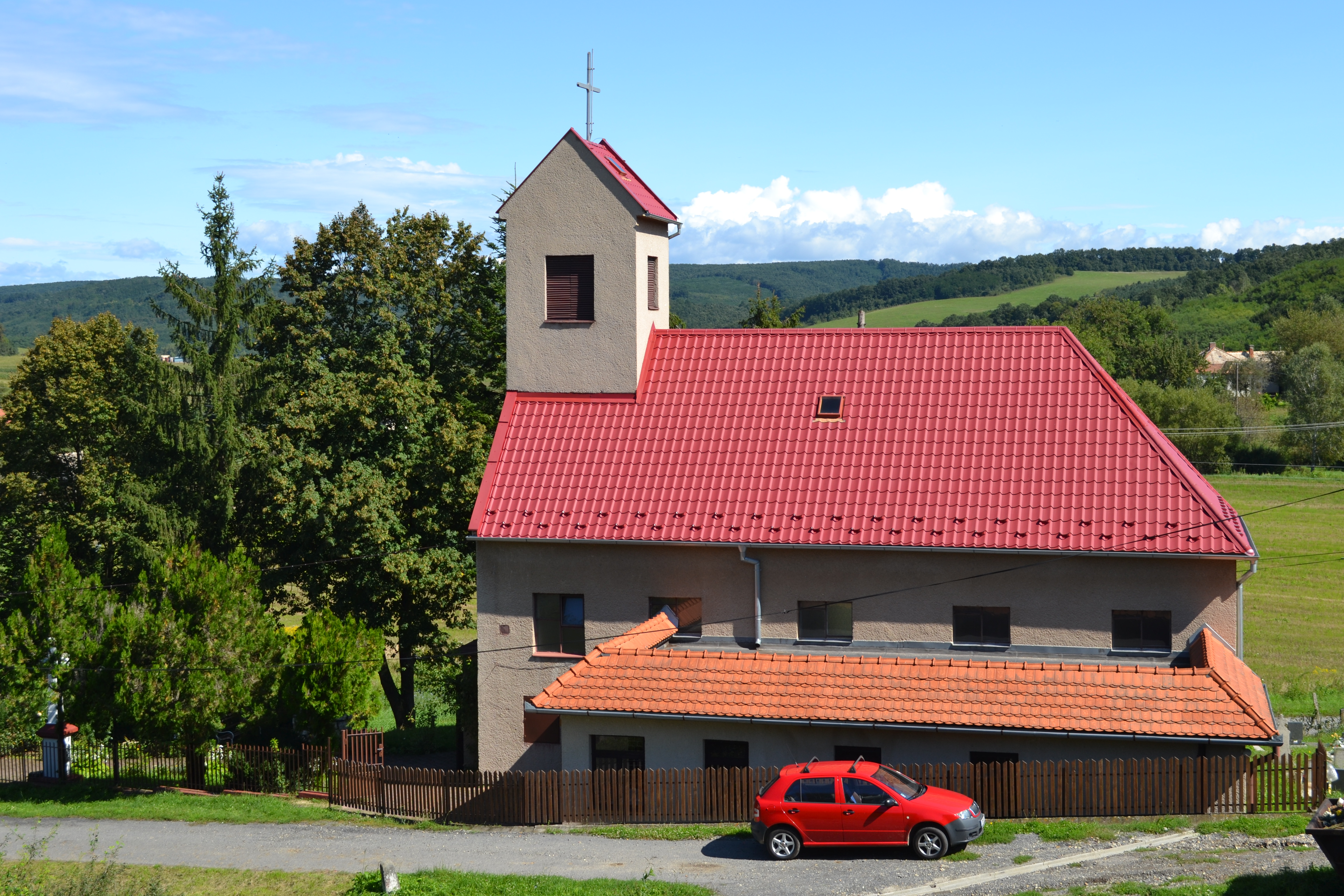 Church of Our Lady of Sorrows in Lipovany